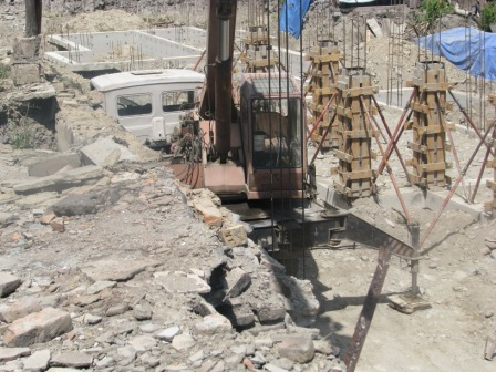 Reconstruction efforts in Tskhinvali after the war.